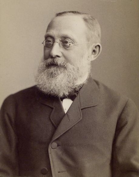 German scientist and politician Rudolf Virchow